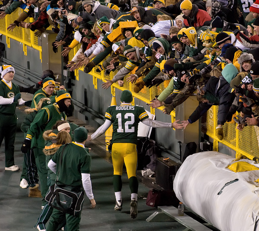 Lambeau Field, January 2, 2011. Photo by Mike Morbeck.